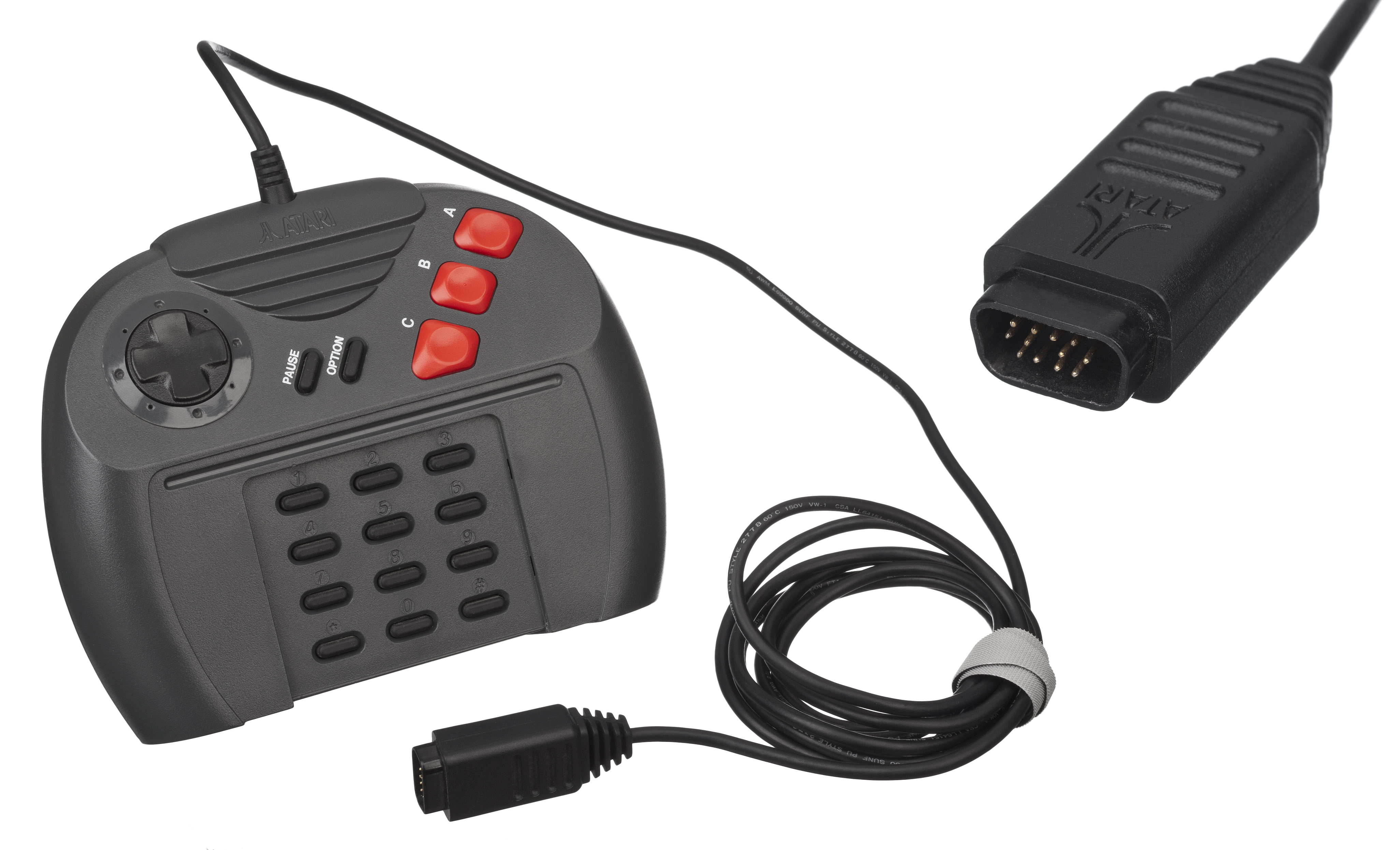 The standard controller for the Atari Jaguar, a home gaming console released in 1993.